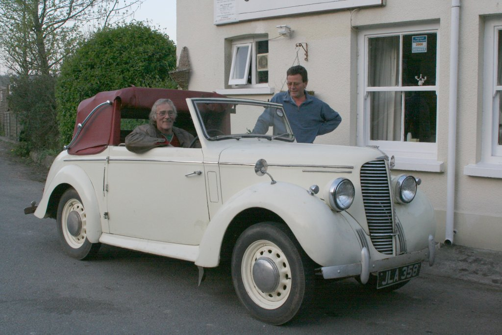 I, Frank Adey of Umberleigh, have owned this car since 1965...seen here with Martin Philips, in driving seat...she still runs fine North Devon. Frank & Christine Adey now run ArtHouse North Devon, for Portrait theme art and landscape art. Having run The Gables Tea Rooms for many years, now concentrating on our Art.